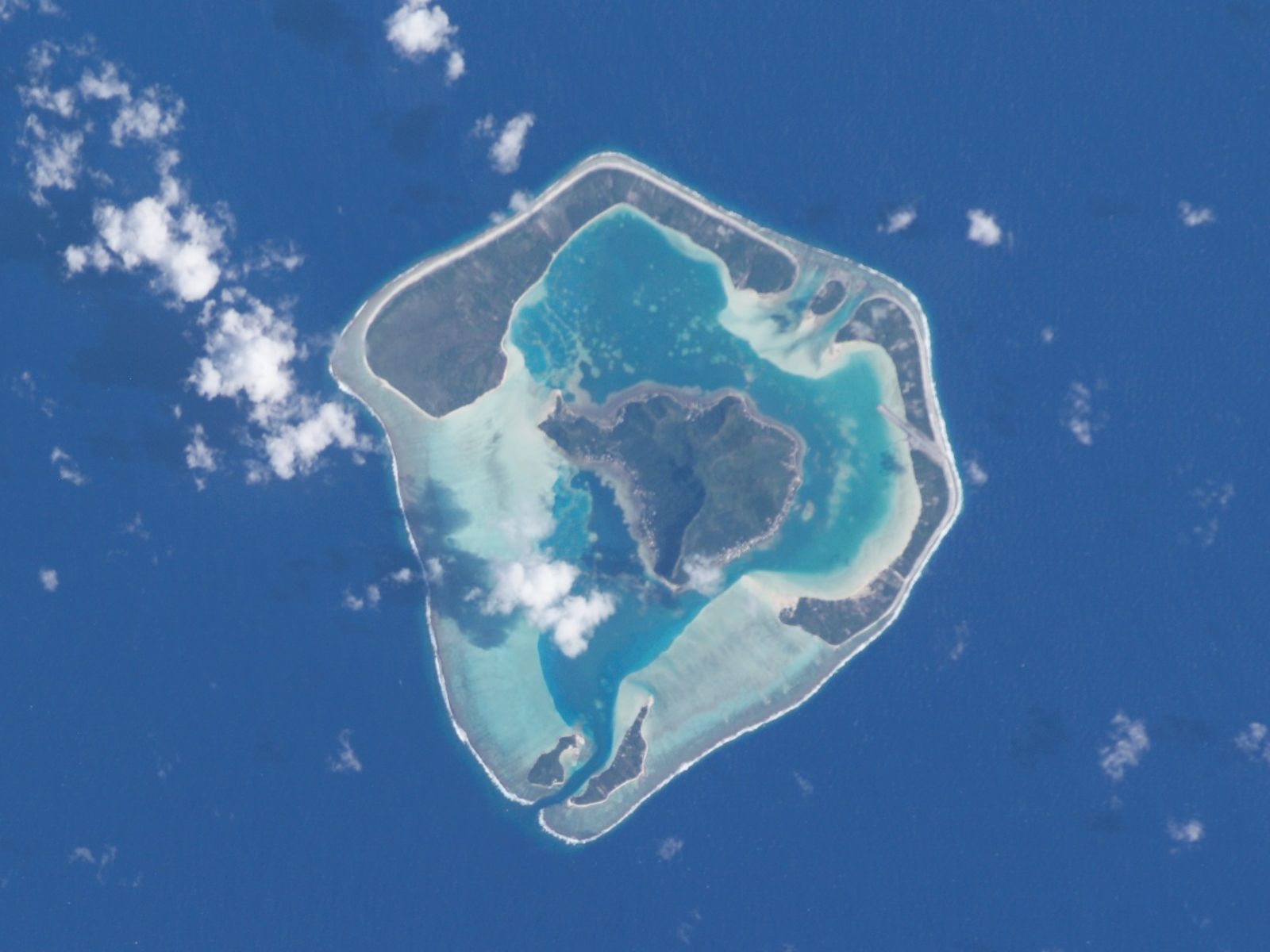 NASA Astronaut Image of Maupiti Atoll (Society Islands, French Polynesia) in the Pacific Ocean